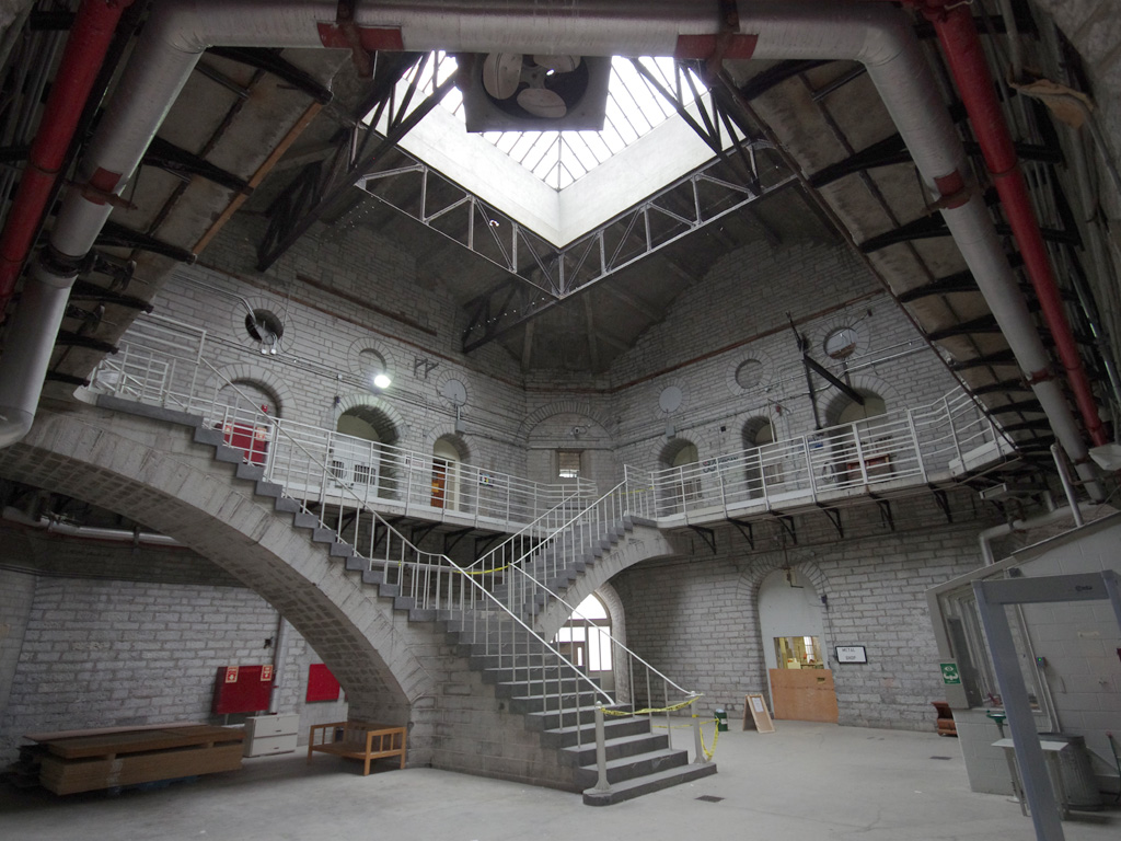 Dome joining the shop building of Kingston Penitentiary.